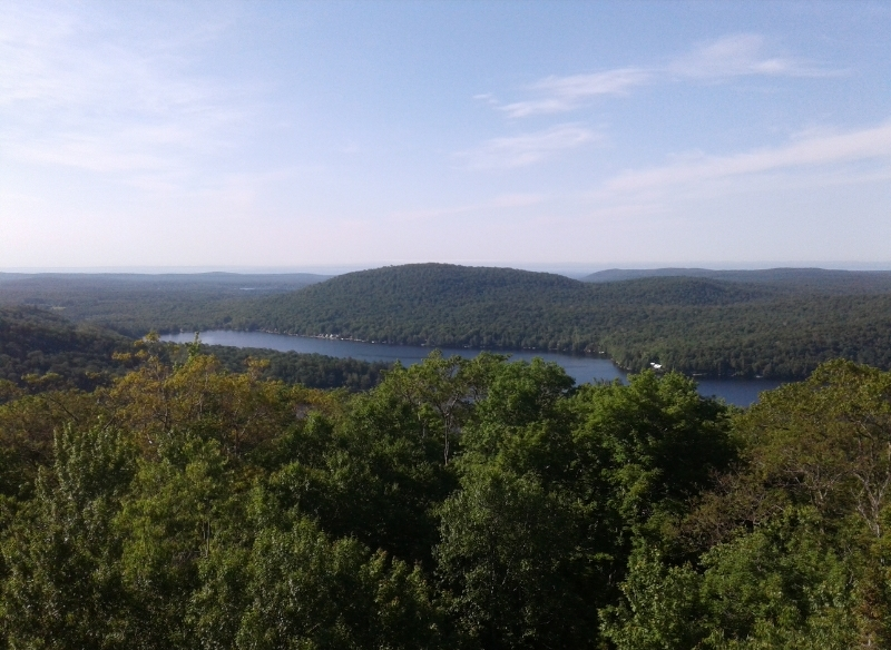 Sheeley Mountain with Canada Lake in front of it. Taken June 2019 from Kane Mountain Fire Observation Station on Kane Mountain in New York.